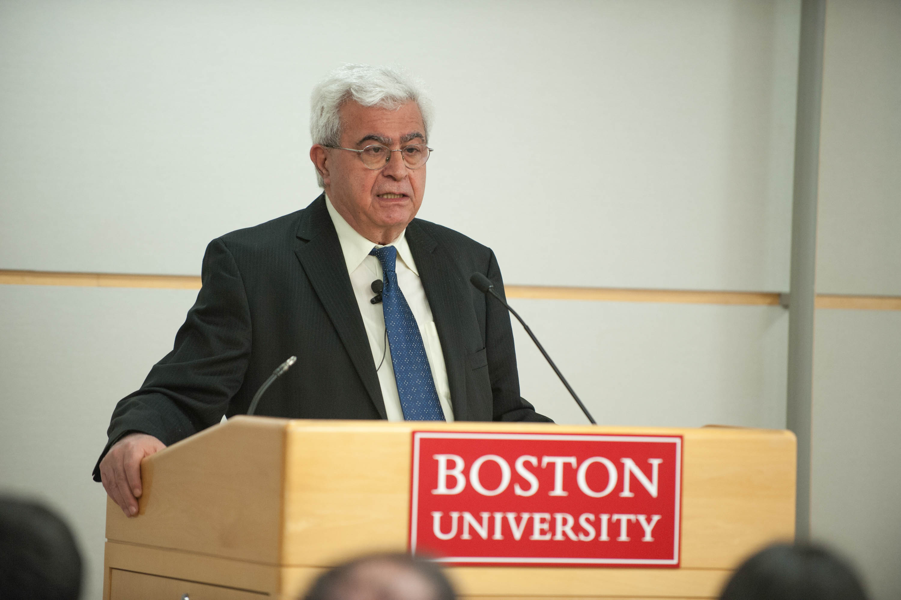 Elias Khoury at Boston University